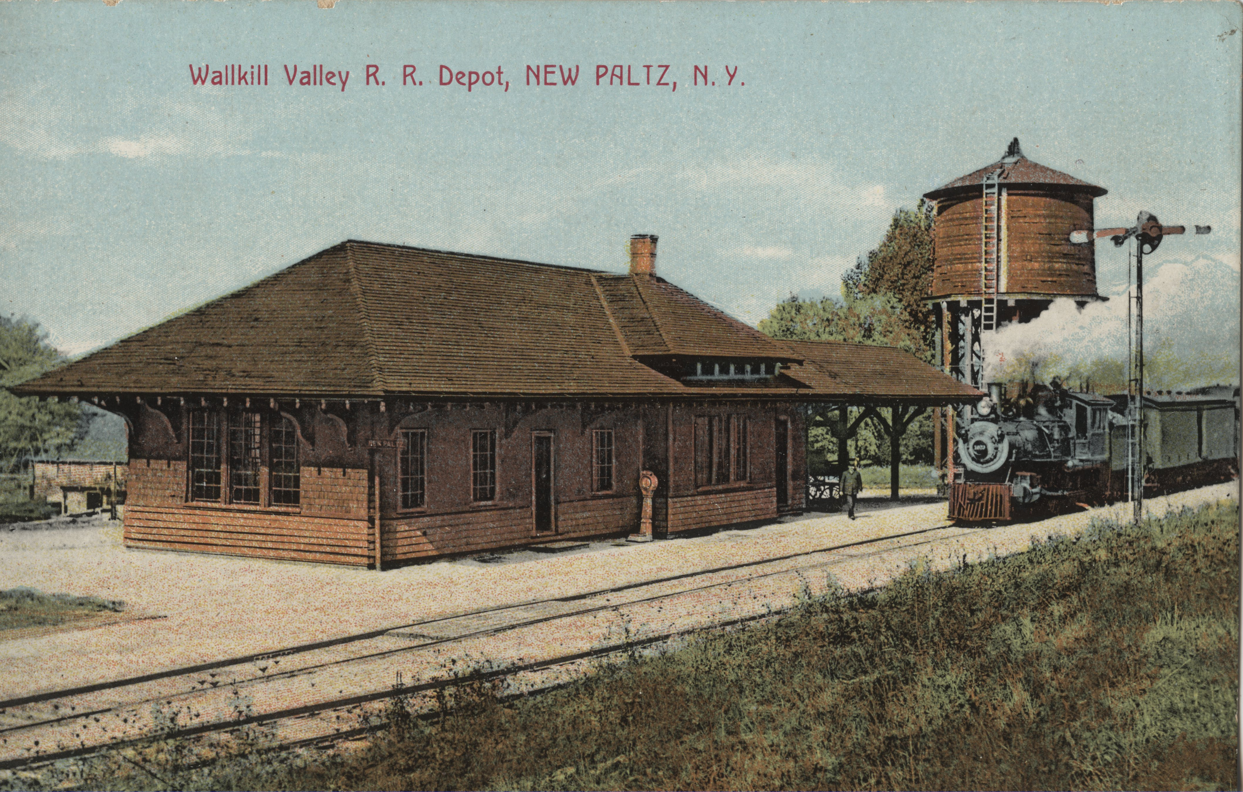 The train station at New Paltz, New York, depicted in a postcard.